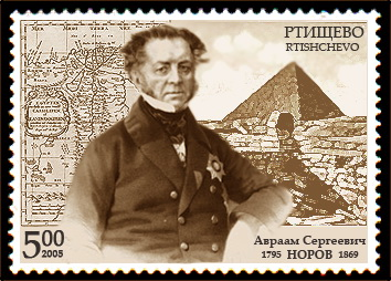 Rtishchevo. The virtual vignette devoted in A. S. Norov.